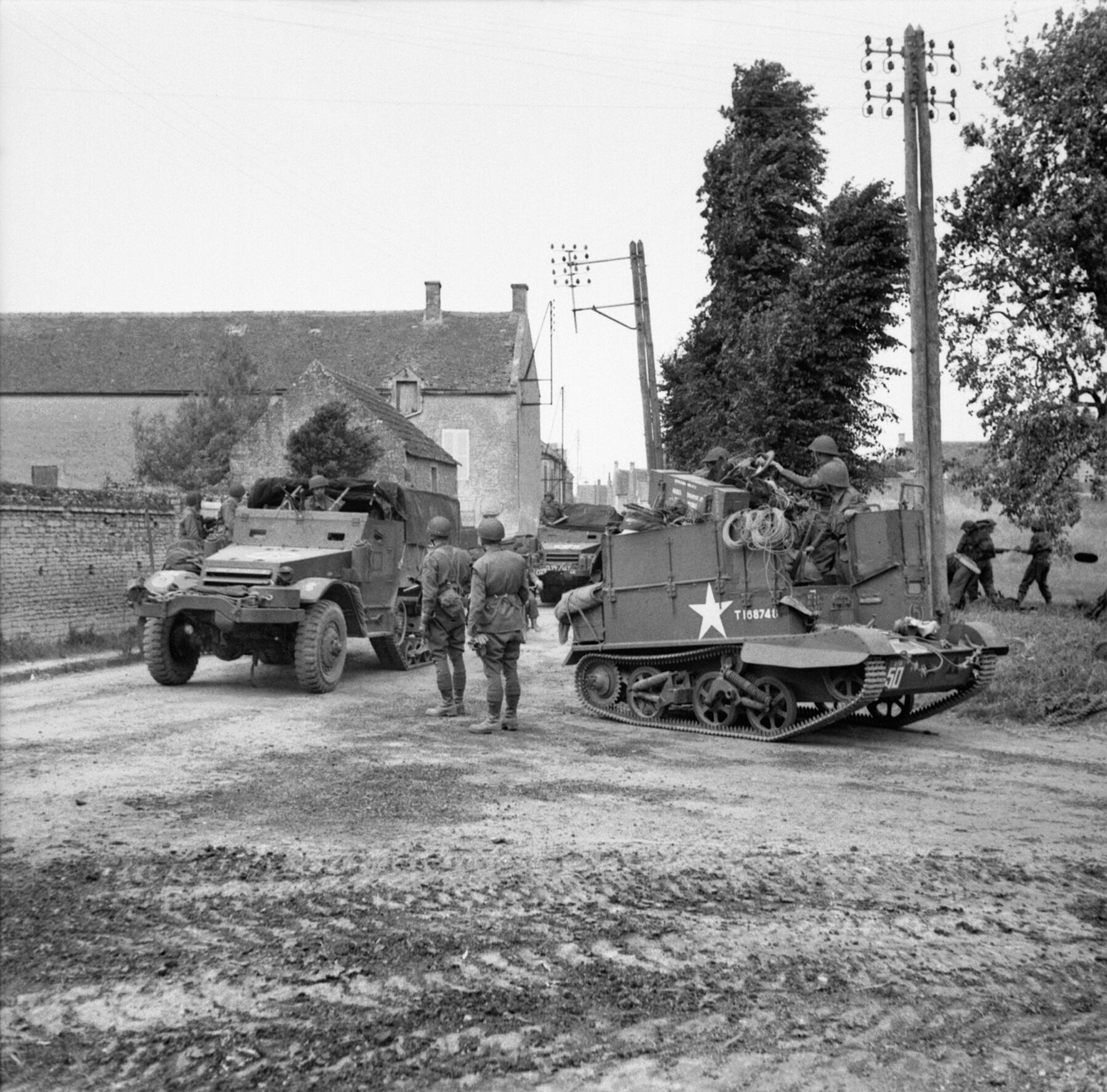 The British Army in Normandy 1944 A Universal carrier with wading screens attached and half-tracks passing through Hermanville-sur-Mer, 6 June 1944.